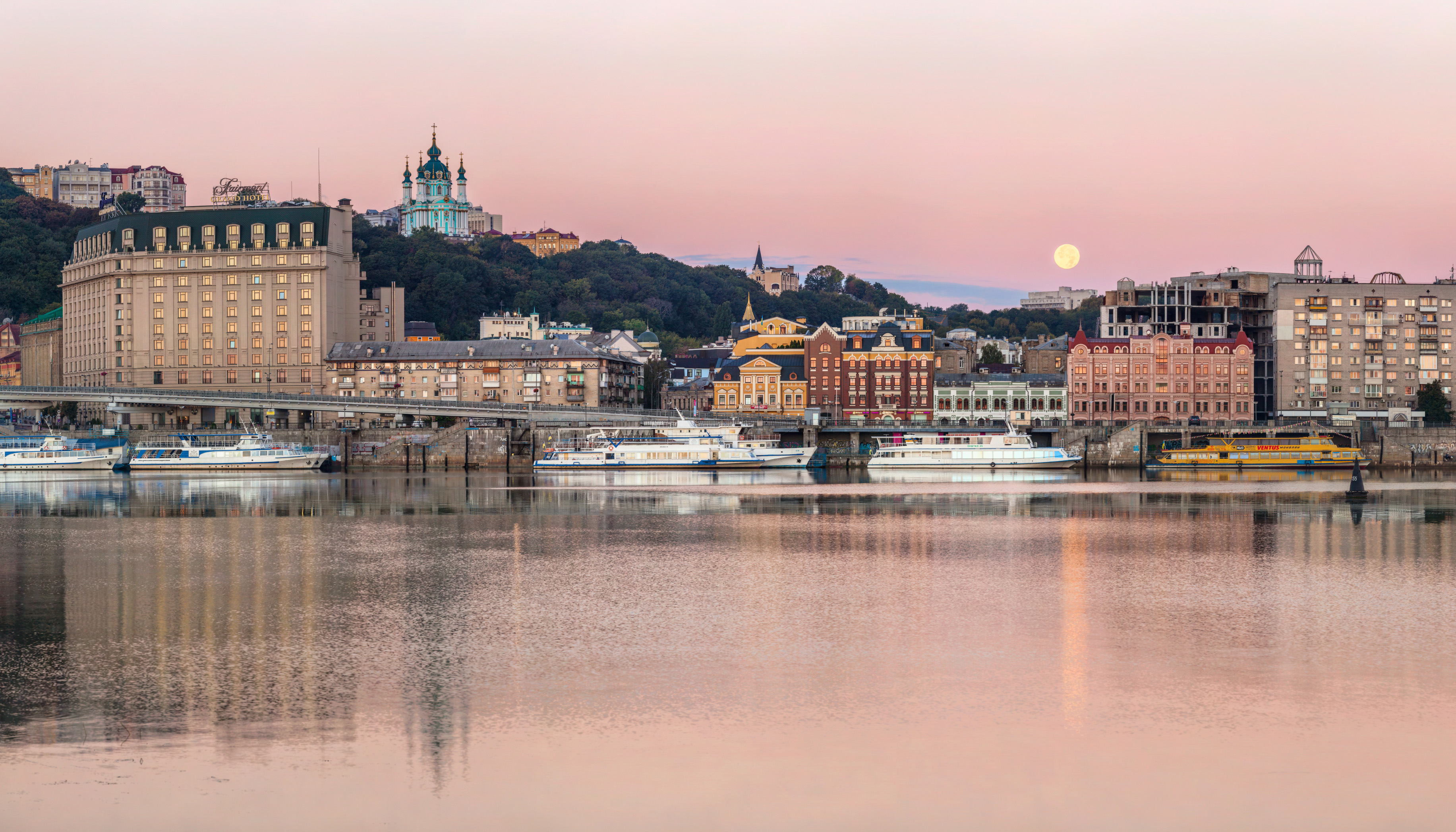 St Andrew's Church, Kiev